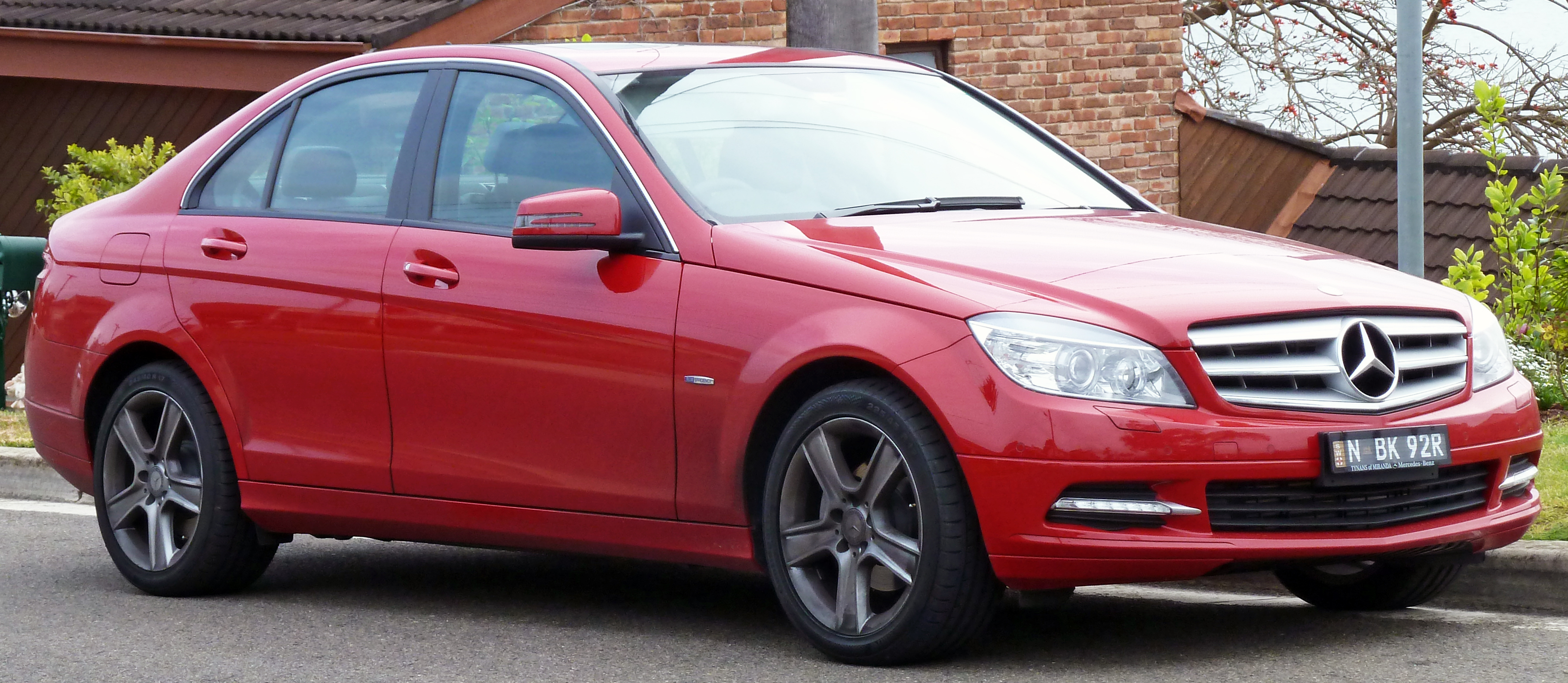 2010 Mercedes-Benz C 200 CGI (W 204) Classic sedan. Photographed in Taren Point, New South Wales, Australia.